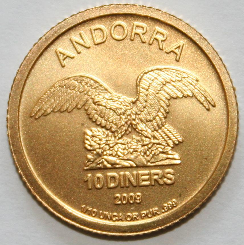 1/10 Au Gold coin, 10 Dinars, Andorra 2009, front